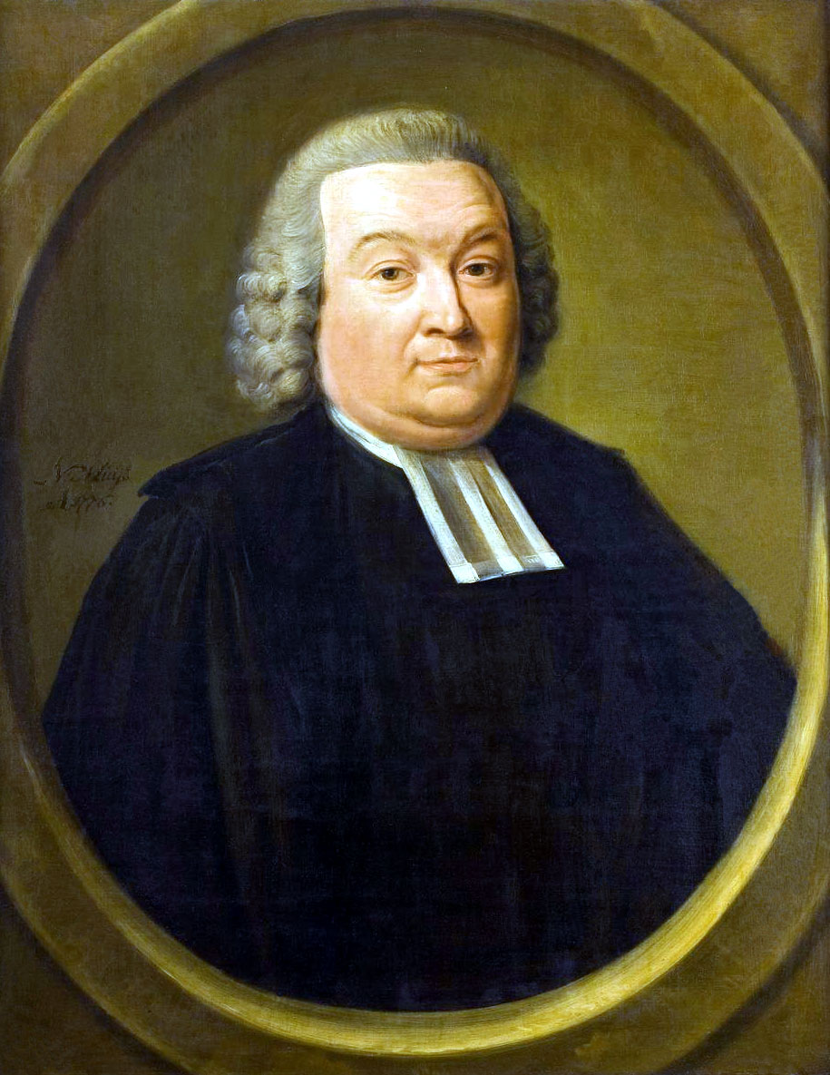 Didericus van der Kemp also: Dirk van der Kemp (1731-1770) Dutch Reformed theologian